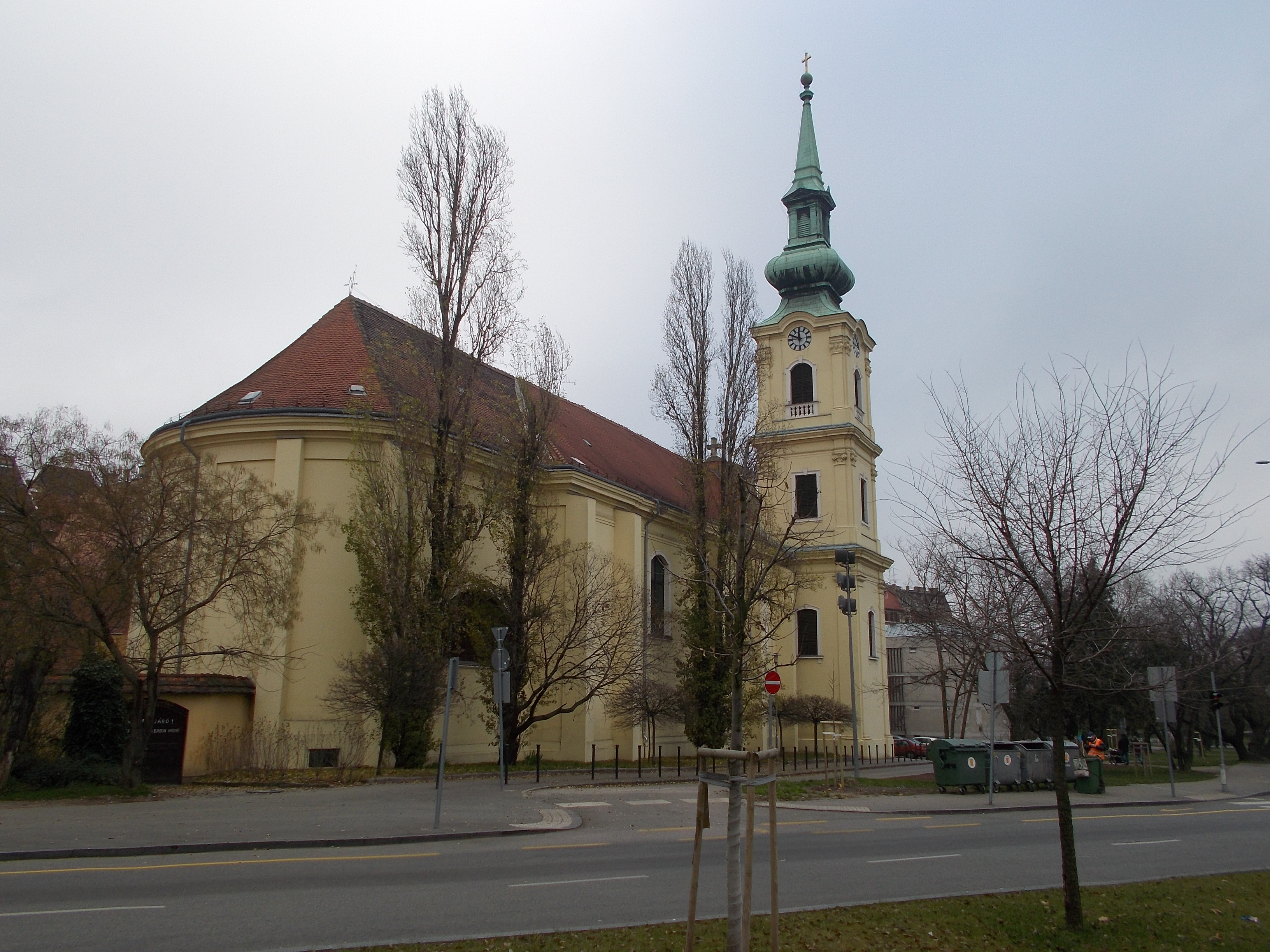 Saint Catherine Church. Monument sign. Plaque- Attila Street, Tabán, Budapest